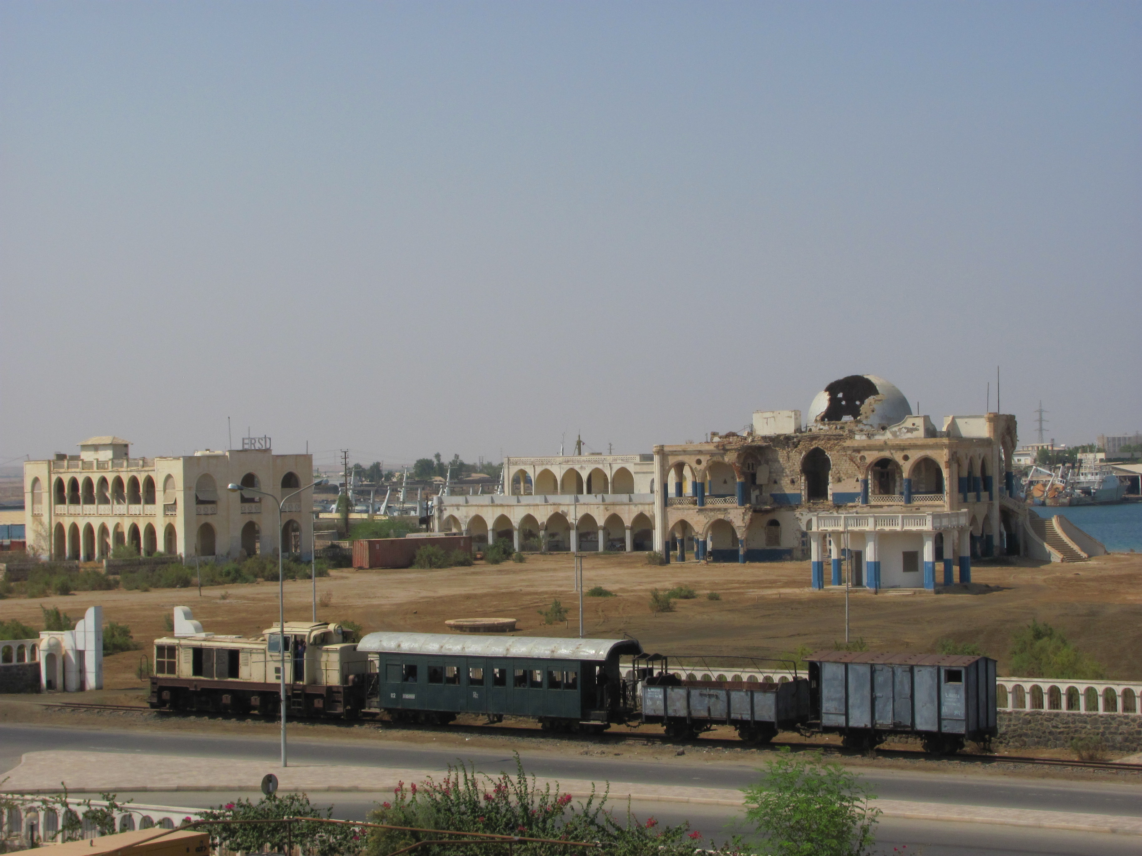 Imperial palace of Massawa , Eritrea, train